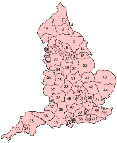 Map of division of functions of local government in England as proposed by Redcliffe–Maud Report. The metropolitan areas are 22 (Merseyside), 23 (Selnec) and 25 (West Midlands).